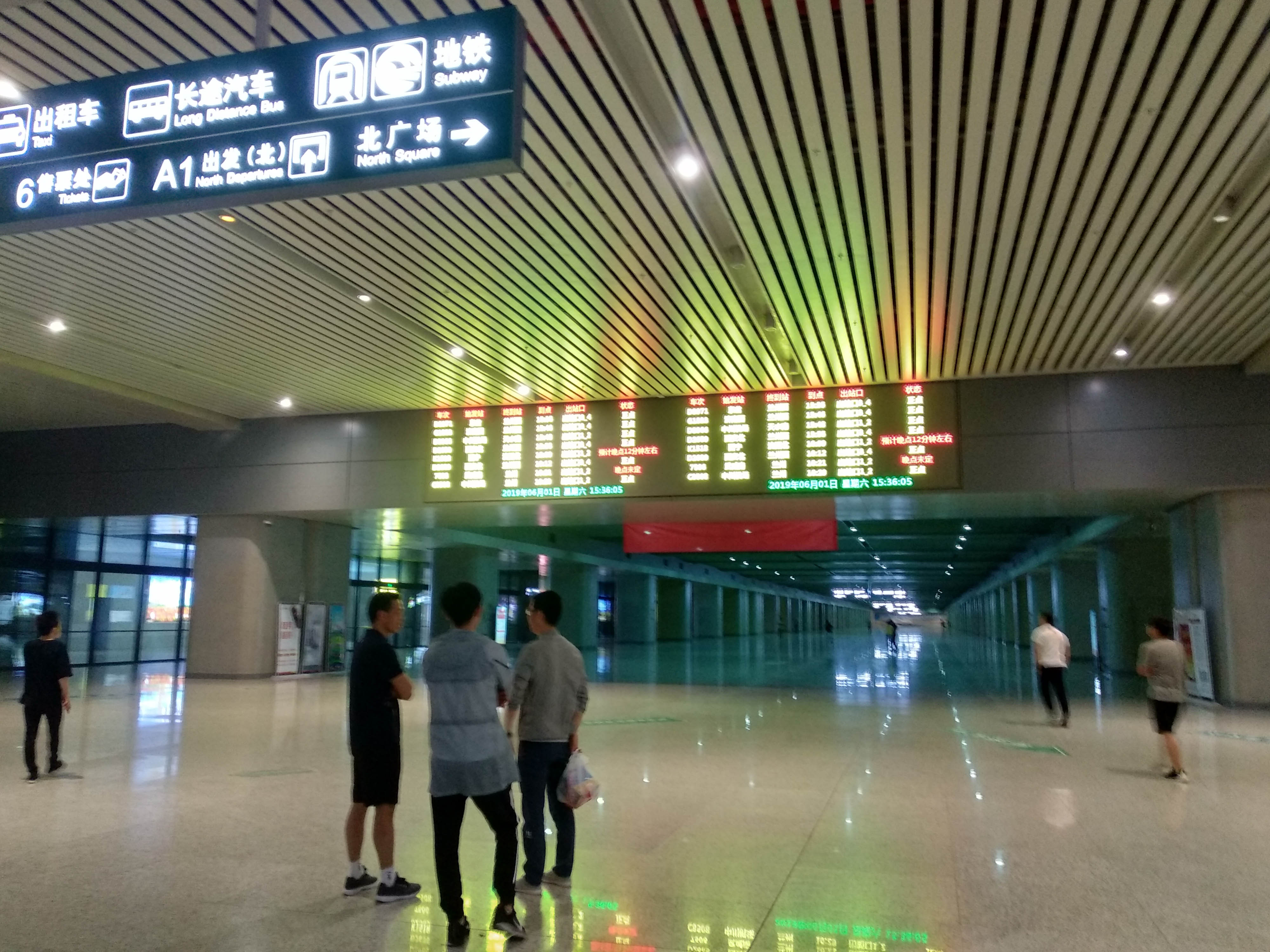 Lanzhou West railway station underground passage